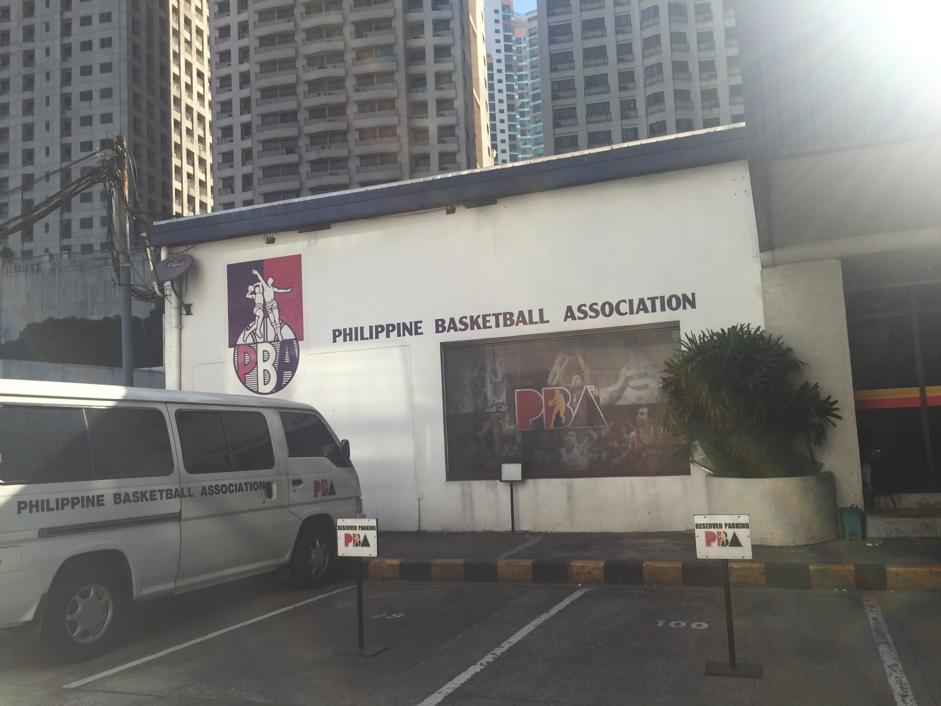 Main offices of the Philippine Basketball Association.